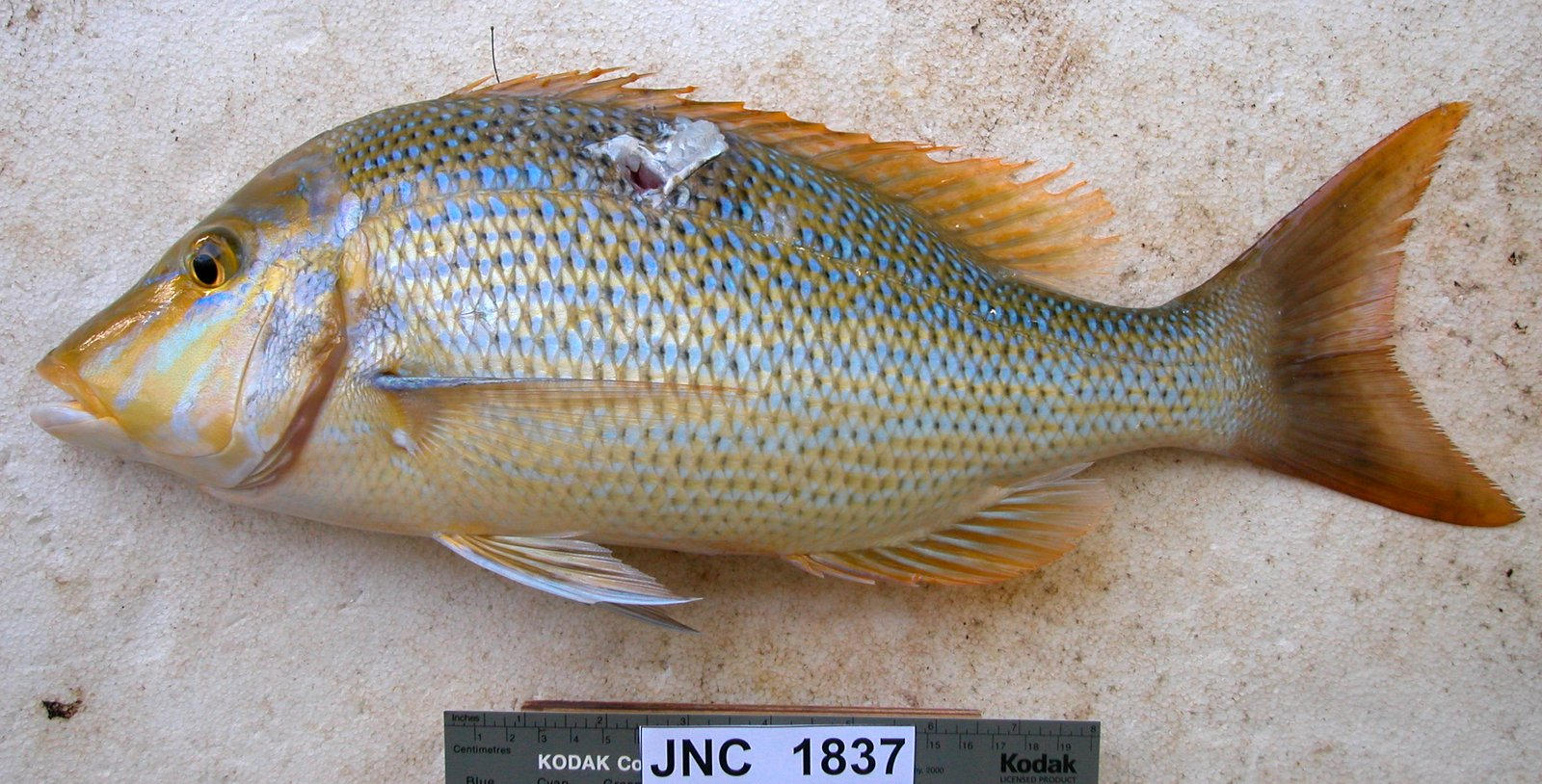 Lethrinus nebulosus (Forsskål, 1775) from off New Caledonia. Parasitological number MNHN JNC1837. Collected off Ilot Signal, off Nouméa, New Caledonia, 23 May 2006. Fork Length 422 mm, Weight 1400g. Note: the fish has been speared